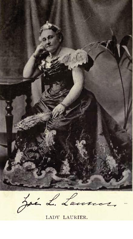 Lady Laurier photo by William James Topley